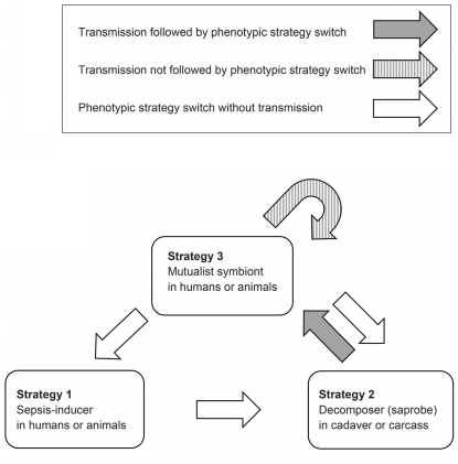 Phenotypic strategy switches of microbes capable of provoking sepsis. They may benefit from inducing sepsis so as to monopolize the future cadaver, utilize its biomass as decomposers, and then transmit through soil or water to establish mutualistic relations with new host individuals.